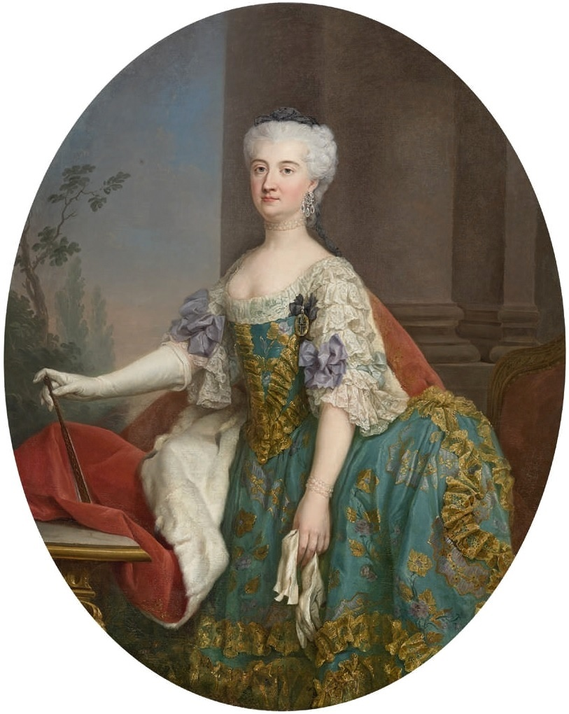 mother of Stanisław Augustus Poniatowski